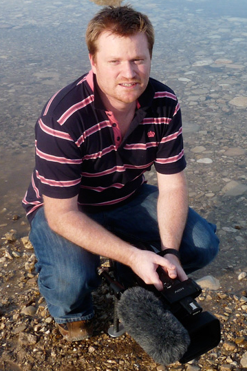 Photo of Brady Haran at the Dead Sea.